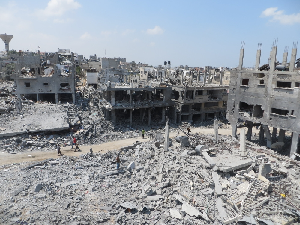 Ruins in Beit Hanoun, August 2014 Photos of the town of Beit Hanoun in the northern Gaza Strip. Taken by Muhammad Sabah, B’Tselem field researcher in Gaza, on 5 August 2014, in the course of the ceasefire. Whole sections of Beit Hanoun have been demolished, making it one of the hardest hit communities in the recent offensive, along with Gaza City, Beit Lahiya, Khuza’ah and Rafah. In the course of the fighting B’Tselem collected several testimonies from Beit Hanoun residents. All but one of the testimonies were taken by phone by B’Tselem field researchers in the West Bank: Ambulance driver Rami 'Ali recounts attacks that killed paramedic 'Aaed al-Bura'i and injured team sent to rescue him, both despite coordination with Red Crescent Read testimony Suhair Shabat describes mortal fear of bombing, leading her to take her children and flee Beit Hanoun Read testimony Shadi Taleb tells of seeing Abu Jarad family home shelled, leaving 8 dead; recounts constantly fleeing with his family for fear of bombings Read testimony Muhammad Hamad, 75, resident of Beit Hanun, relates how bombing killed his family members in their yard Read testimony